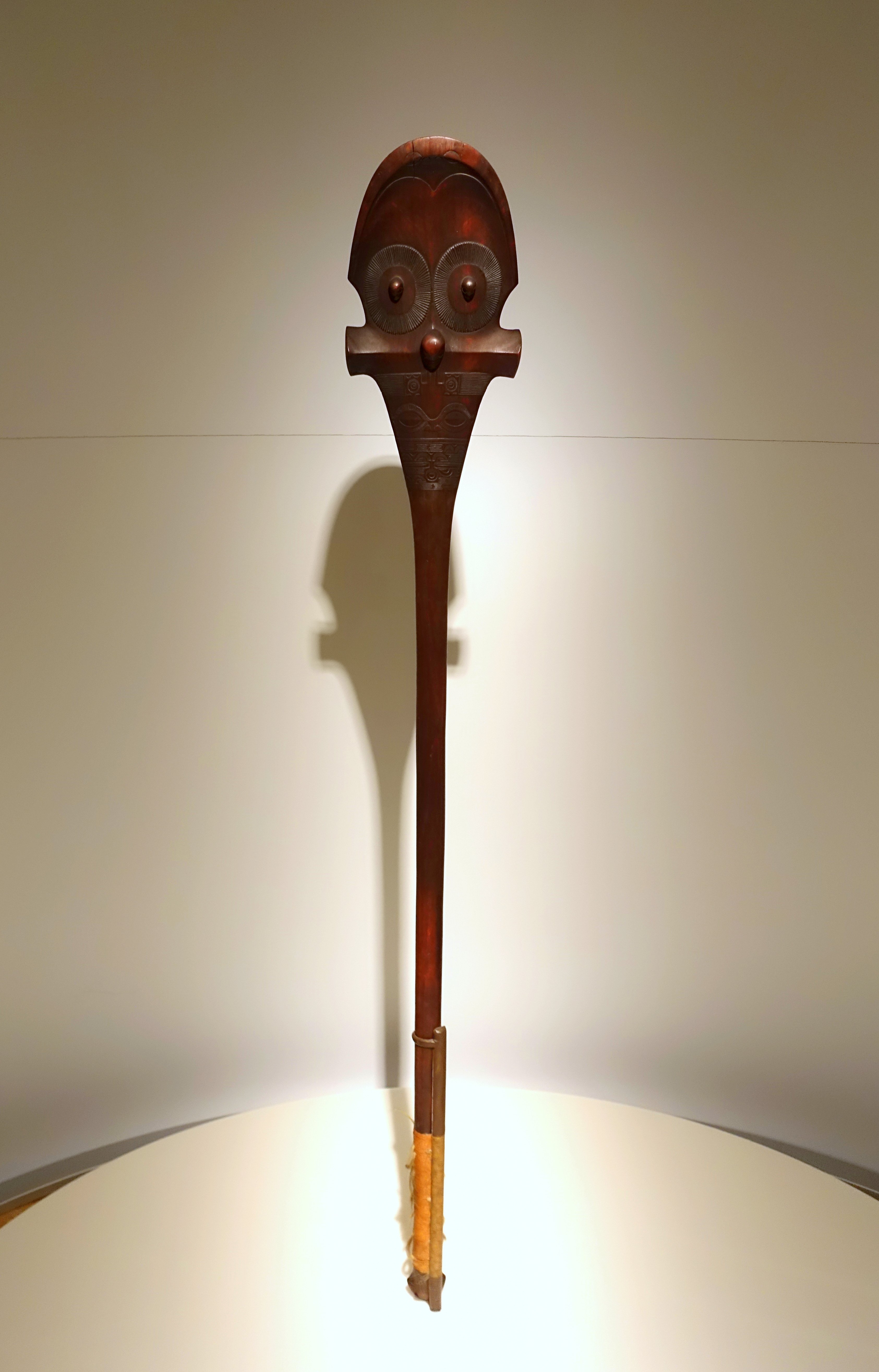 Exhibit in the Peabody Essex Museum - Salem, Massachusetts, USA.